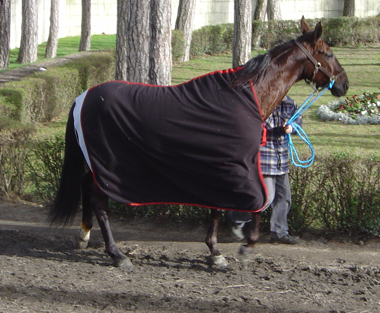 racing horse warming up in Vincennes, France